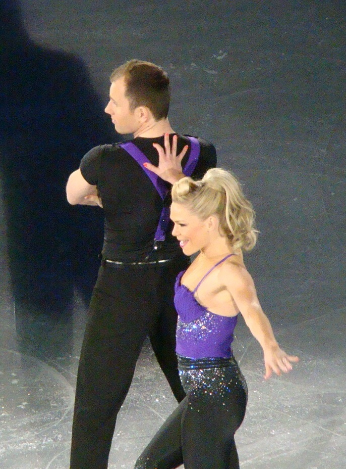 Alexandra Schauman and Lukasz Rozycki on the Dancing on Ice tour at the Manchester M.E.N Arena 1.30pm Sunday 1st May 2011.